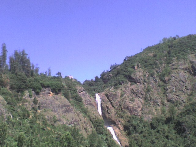 This picture was taken from the road which goes towards ooty